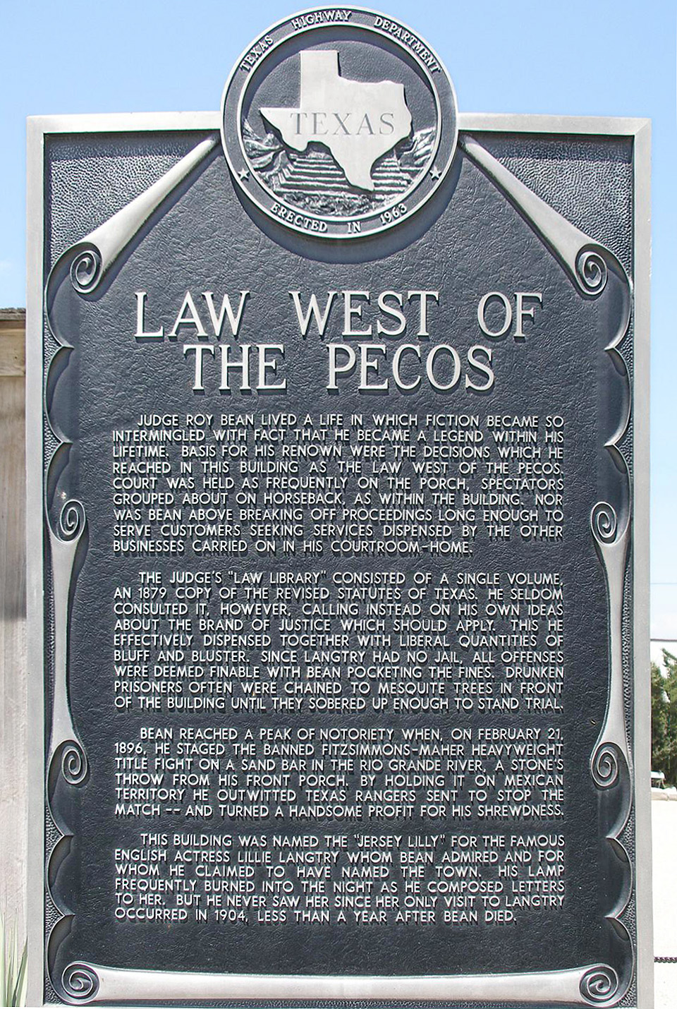 Historical marker at Judge Roy Bean's Jersey Lilly saloon in Langtry, Texas. Photo taken September 2005.